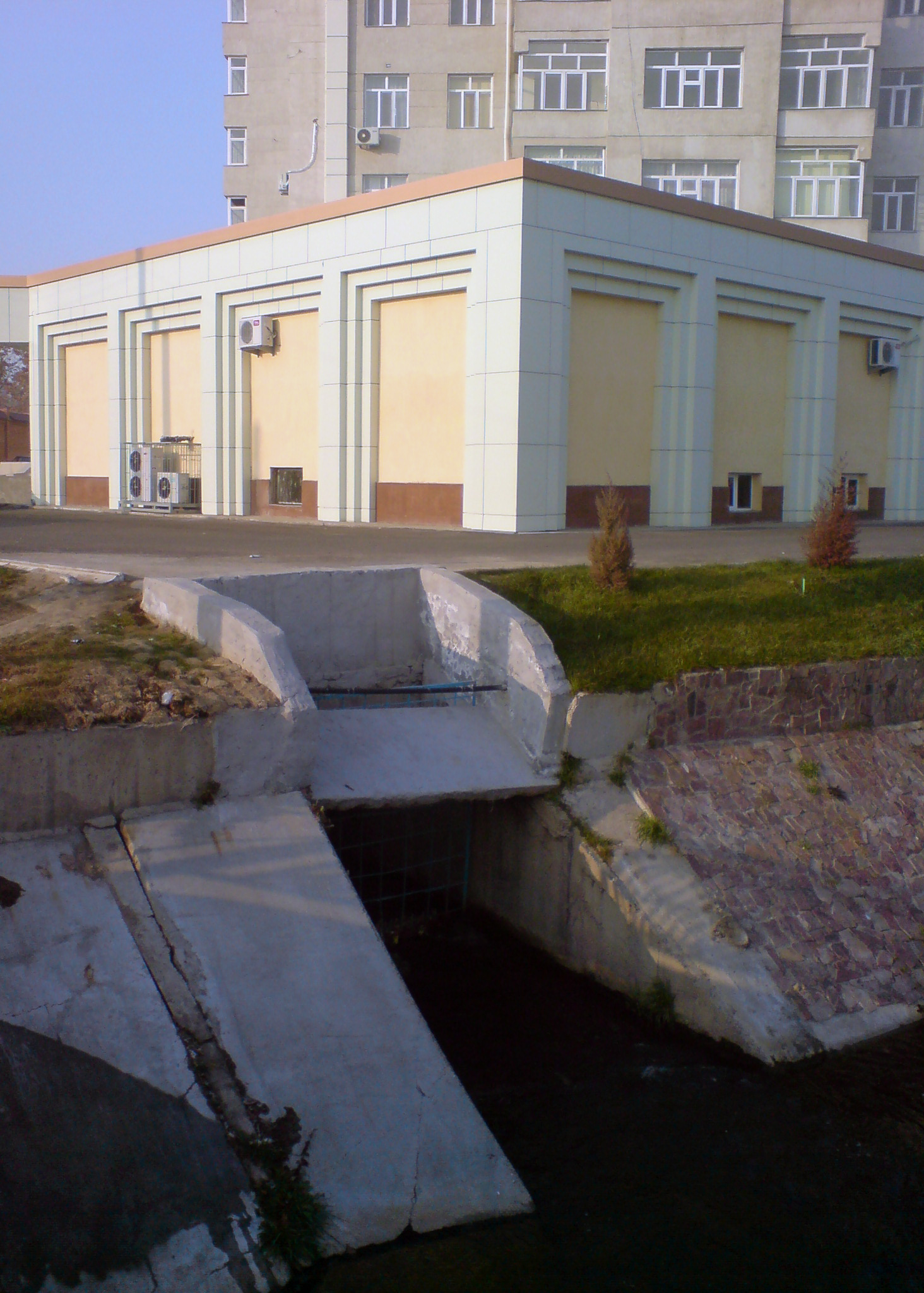 Чаули в районе впадения в Салар (единственный открытый участок канала), г. Ташкент